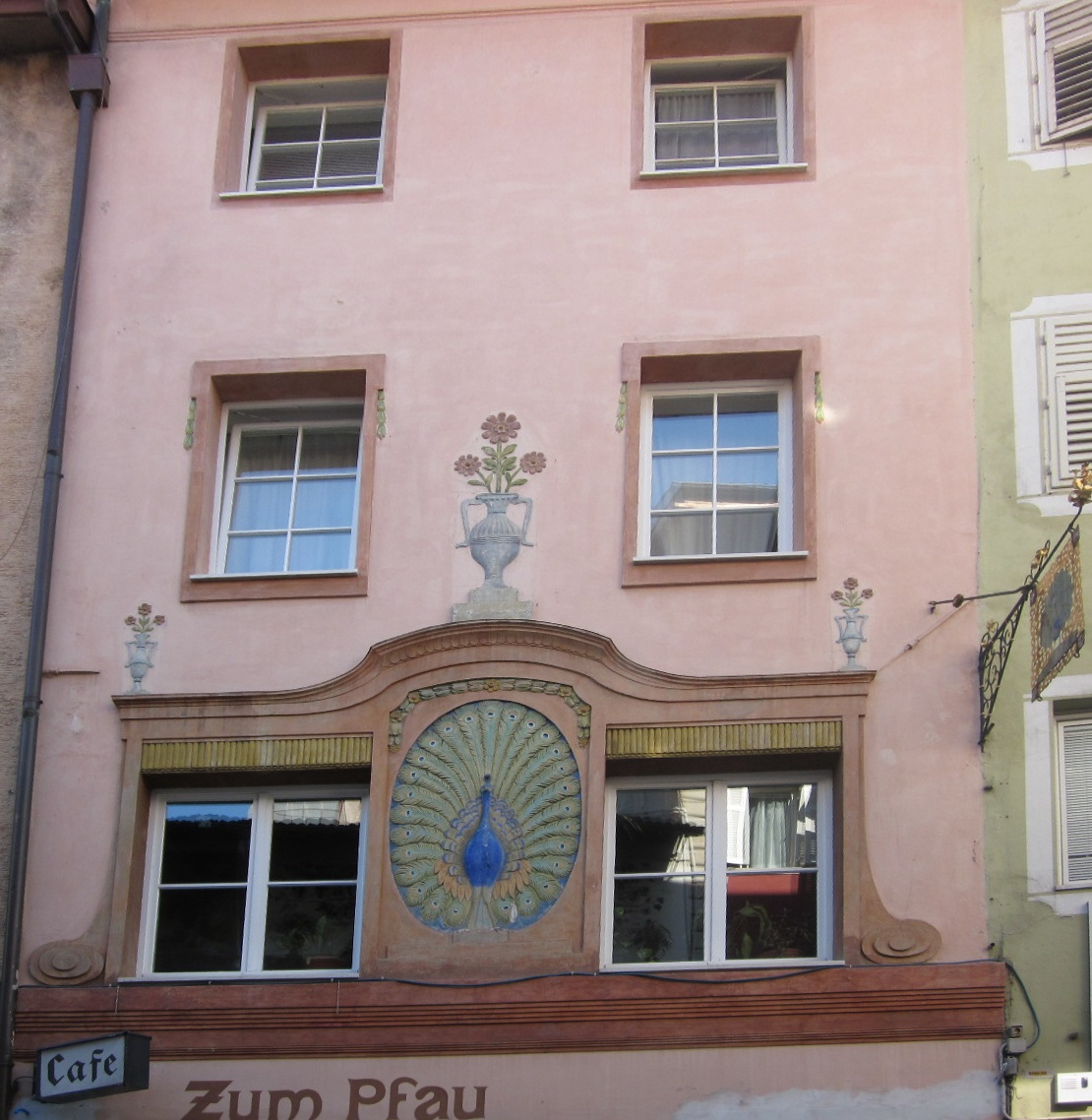 former Inn known as Gasthof Pfau in Bolzano/Bozen